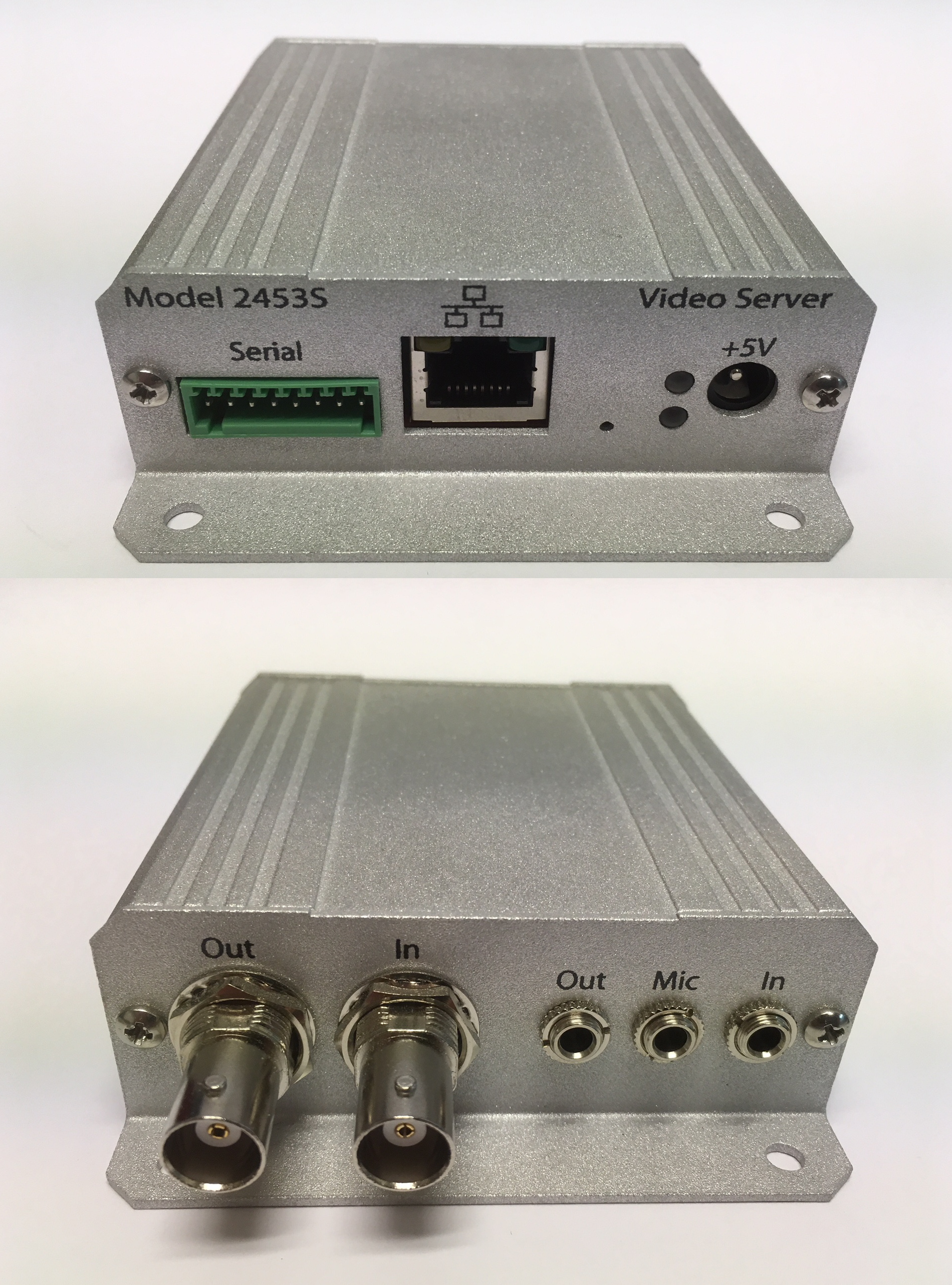 Front and back views of an IP video server with A/V capture (Sensoray 2453S). This device captures audio and NTSC/PAL composite video, transforms (e.g., resize, rotate, mirror) and overlays user-defined text on the video, compresses the A/V (formats include H.264, MPEG-4, MJPEG, AAC, G.711, MP4 and TS) and streams it onto Ethernet via HTTP, RTP, RTSP or UDP. A/V outputs can be used for real-time previewing, or the device can function as a client by receiving and decoding an Ethernet stream and sending it to the A/V outputs. GPIOs and serial COM port are available for camera/light control, etc.